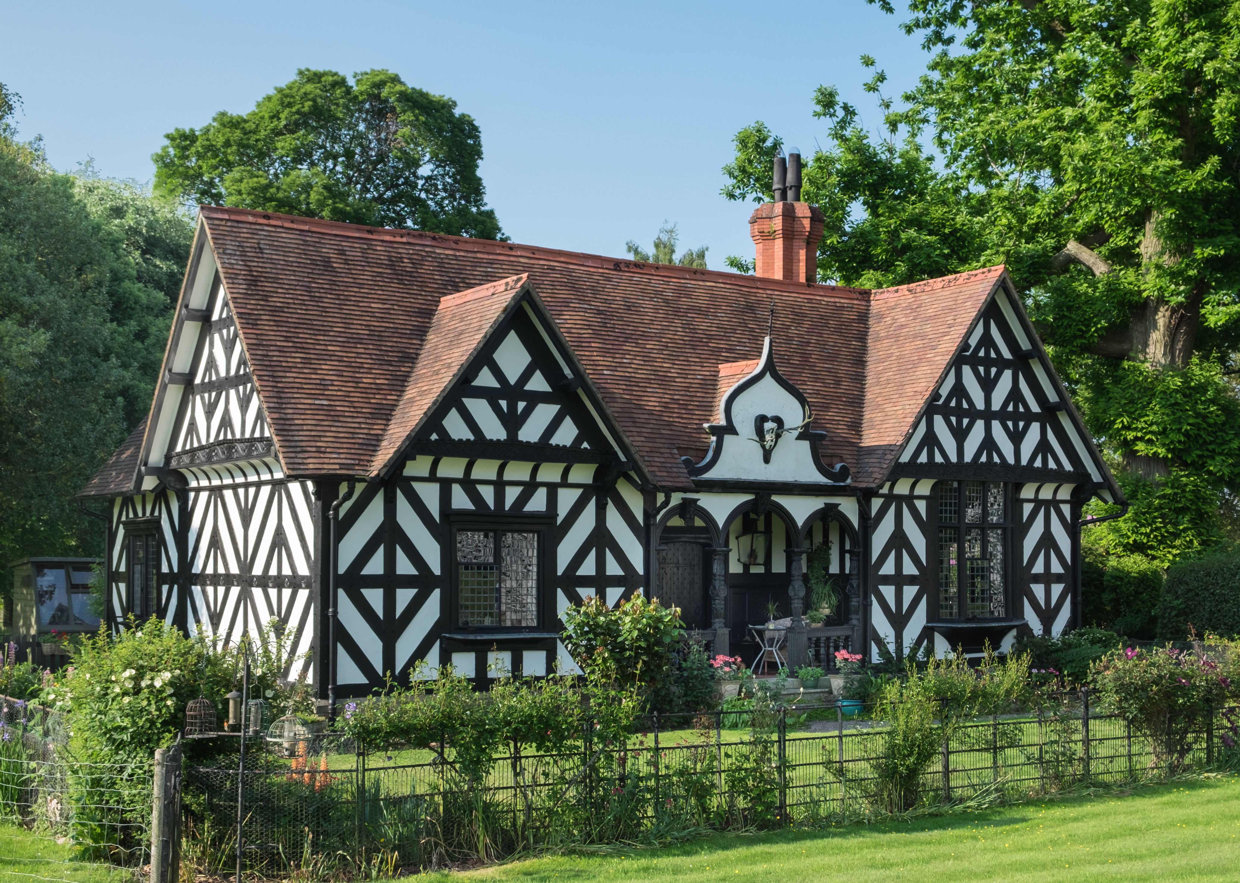 Llwyn-y-cil Lodge, Chirk. This 19th century, Tudor Domestic Revival style lodge, which is just inside the gates of Chirk Castle, is a grade II listed building in Wales.